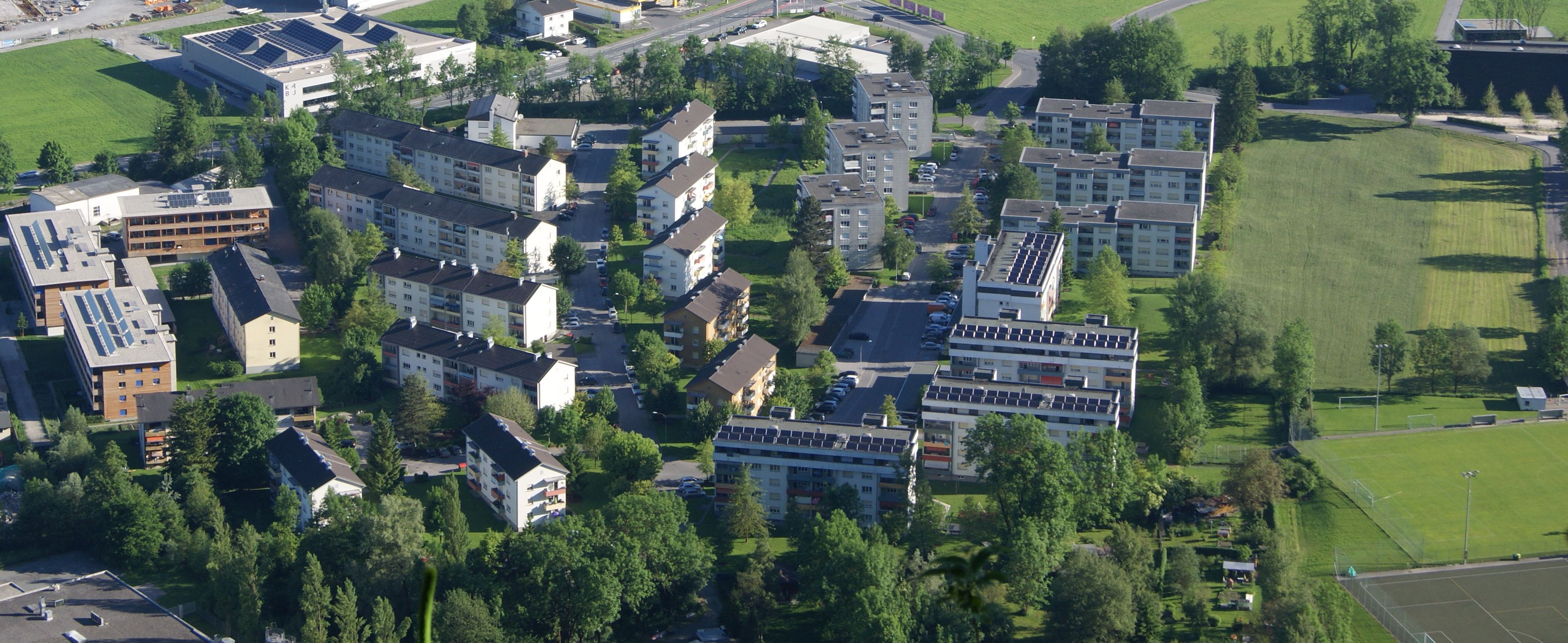 District "Bremenmahd" in Dornbirn, Vorarlberg, Austria.